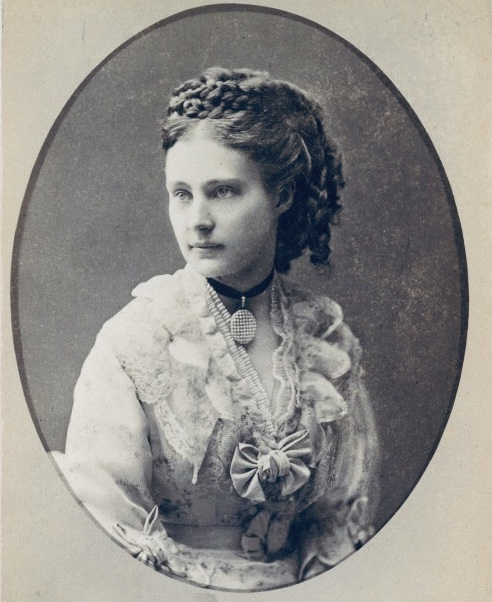 Bildnis in jungen Jahren in Oval.